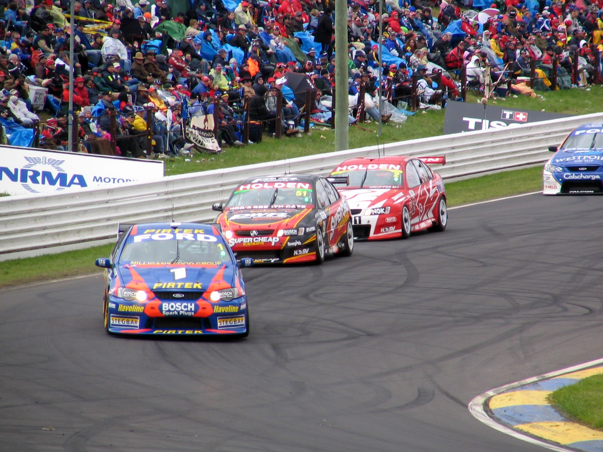 The Marcos Ambrose / Warren Luff Ford BA Falcon entered by Pirtek Racing leads the pack in the 2005 Super Cheap Auto 1000 at the Mount Panorama Circuit, Bathurst, New South Wales, Australia